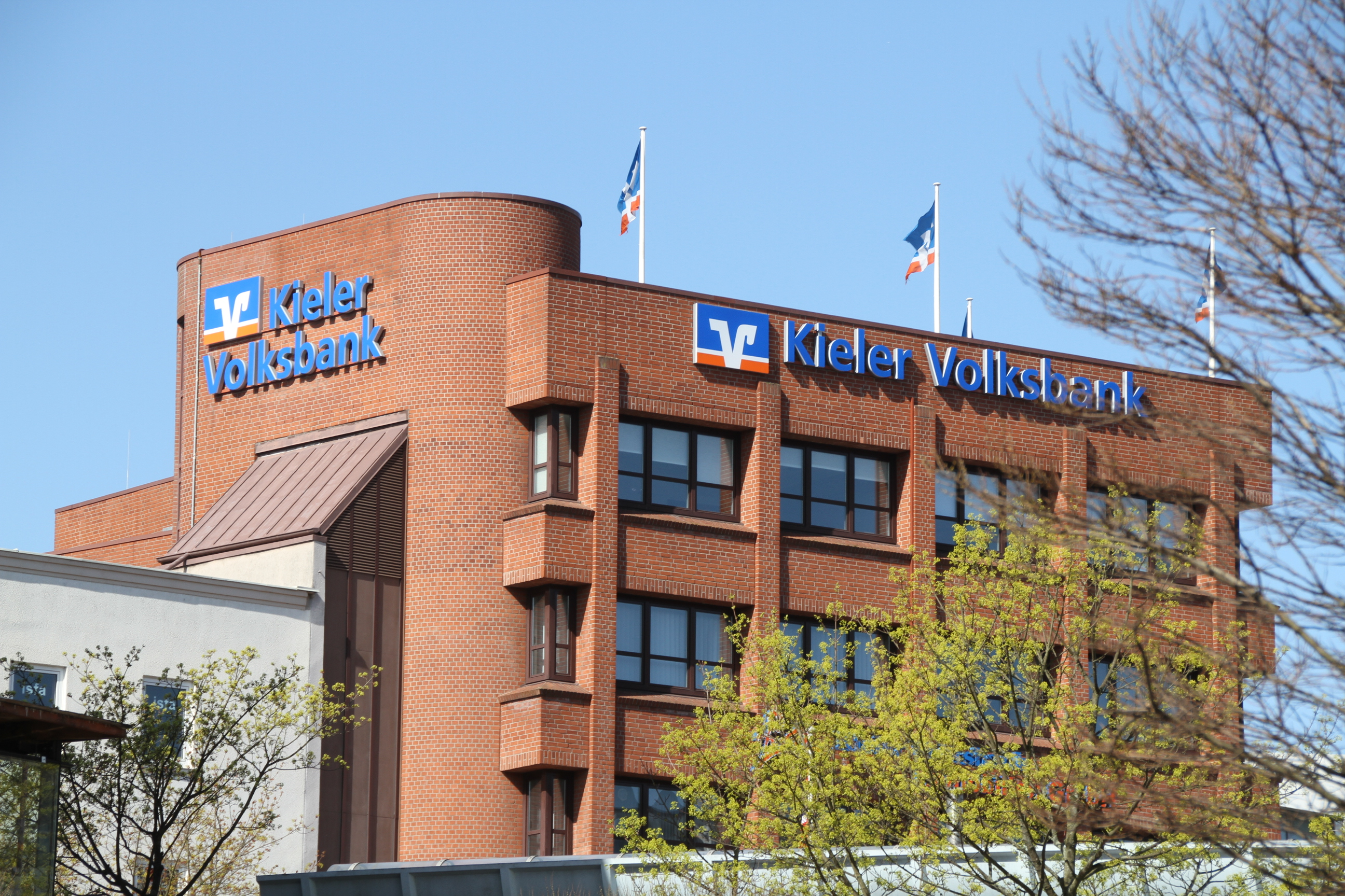 The quarters of the People's Bank of Kiel (Kieler Volksbank), north Germany.